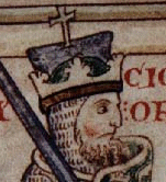 Image of Offa's head, clipped from Image:Matthew Paris Offa horseback.jpg which was taken from a medieval manuscript.